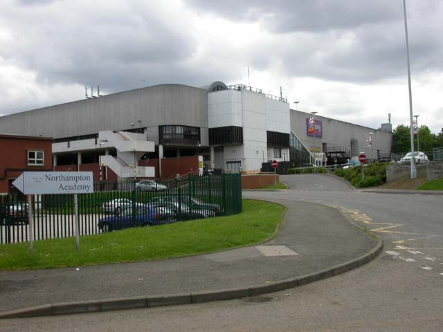 Weston Favell Shopping Centre. The signpost in the foreground of the image, 'Northampton Academy', is giving directions to a nearby school.